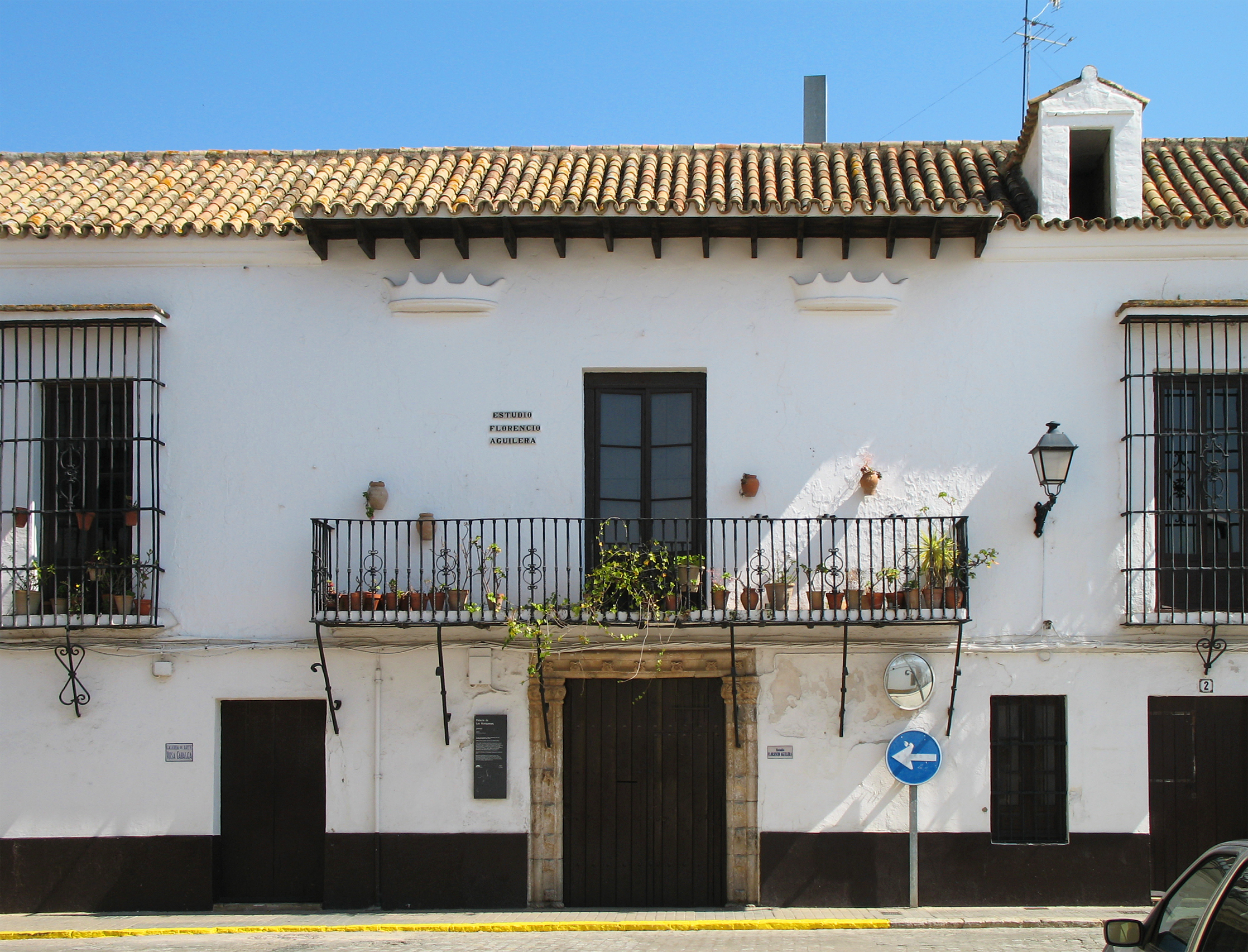 Ayamonte (province of Huelva, Andalusia, Spain): former residence of the lords of Ayamonte (Palacio del Marqués de Ayamonte), now studio and museum of the painter Florencio Aguilera